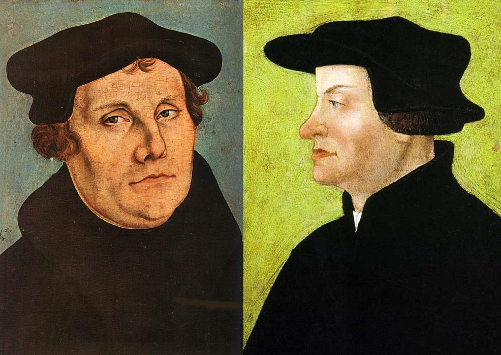 Martin Luther by Lucas Cranach the Elder, painted in 1529, scan by Carol Gerten-Jackson. This picture is situated at the Hessisches Landesmuseum Darmstadt.